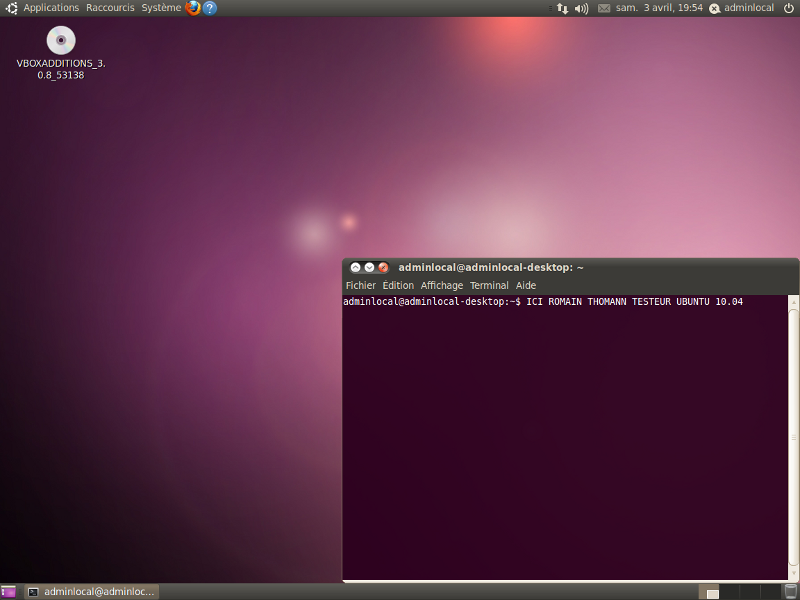 shnashpot